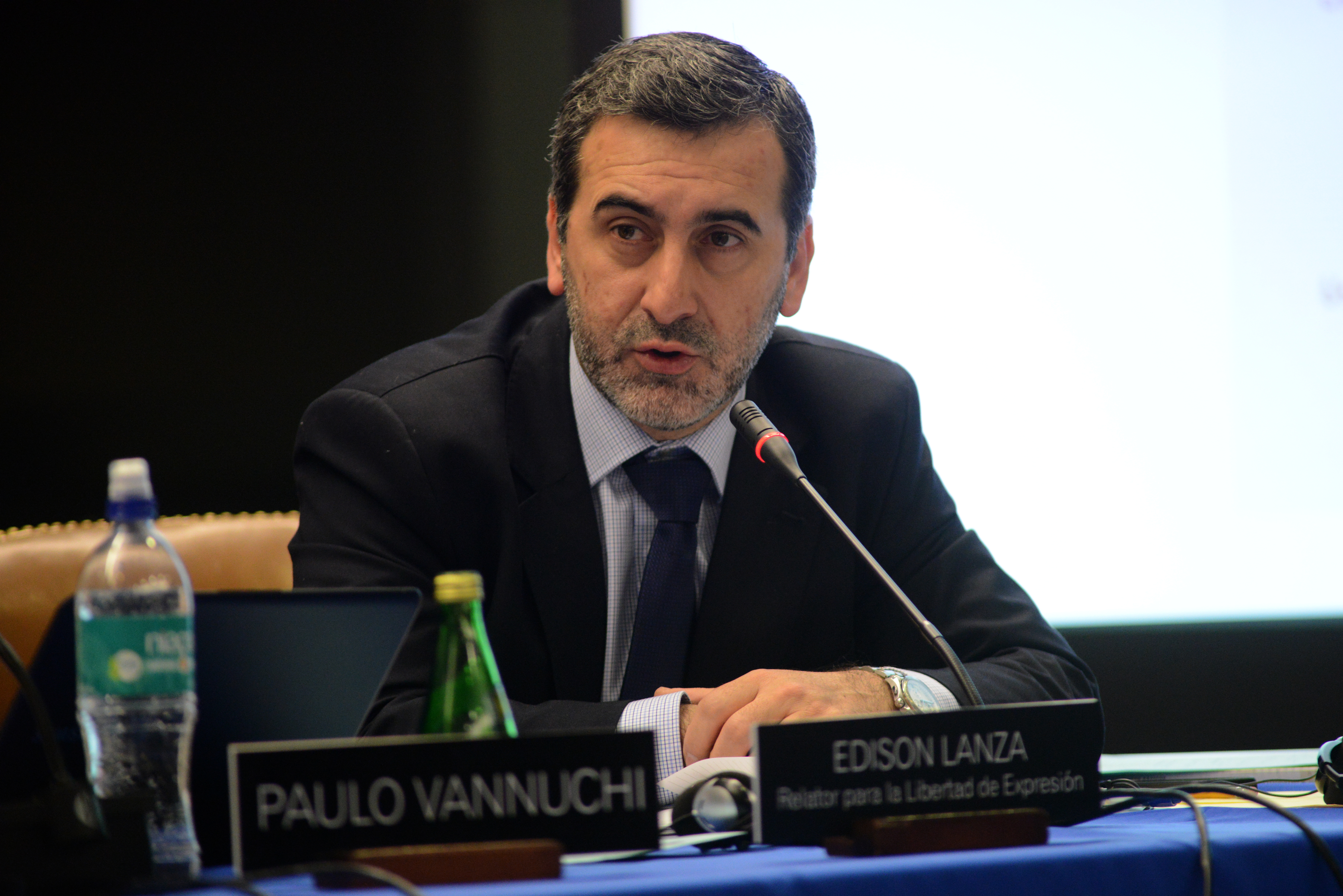 154 Período Ordinario de Sesiones 17 de marzo de 2015 Edison Lanza, Relator Especial para la Libertad de Expresión de la CIDH Crédito de la foto: Daniel Cima